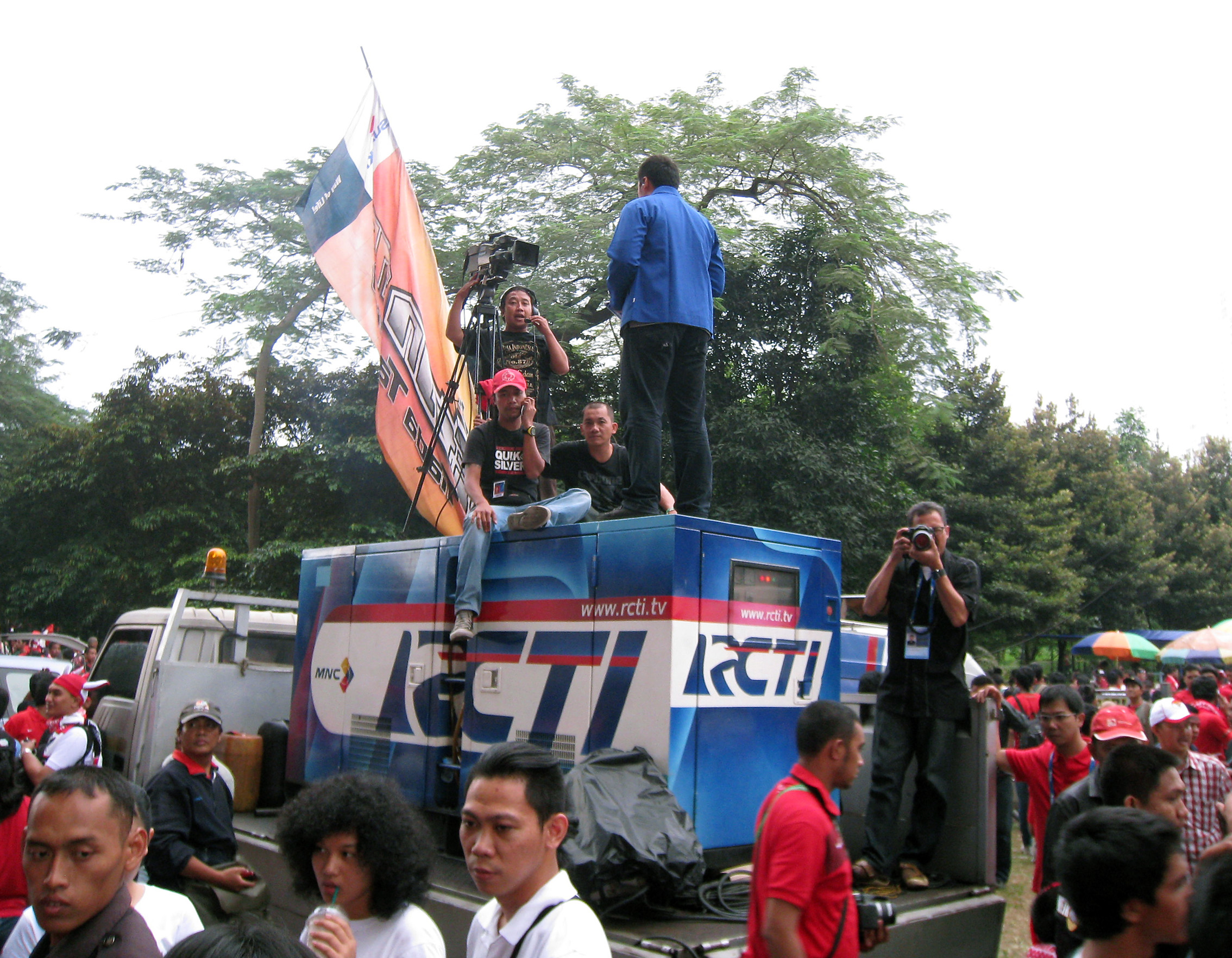 TV News reporters from RCTI during AFF 2010 match in Gelora Bung Karno Stadium, Jakarta, Indonesia. 19 December 2010.